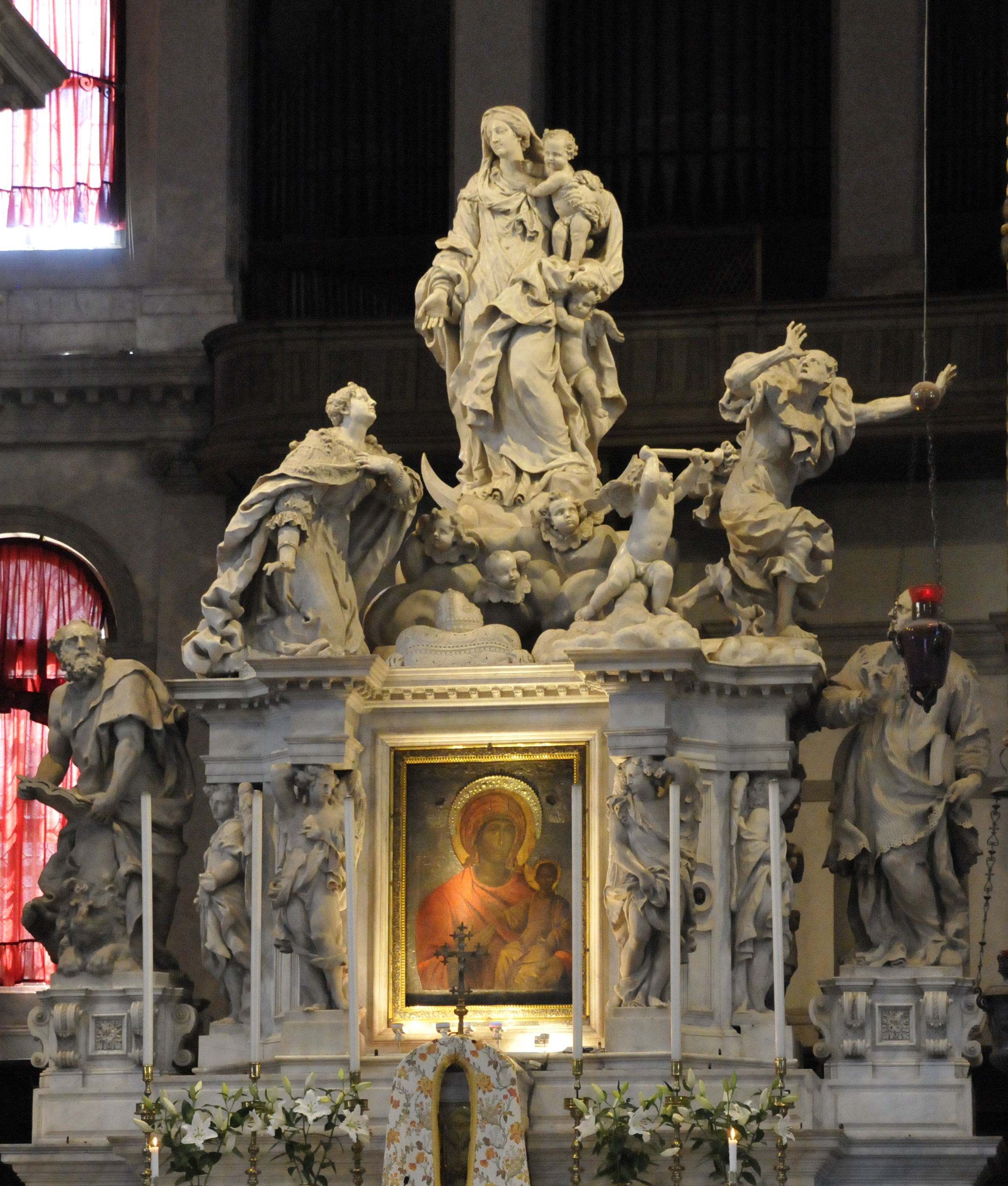 Giusto Le Court, main altar in Basilica di Santa Maria della Salute